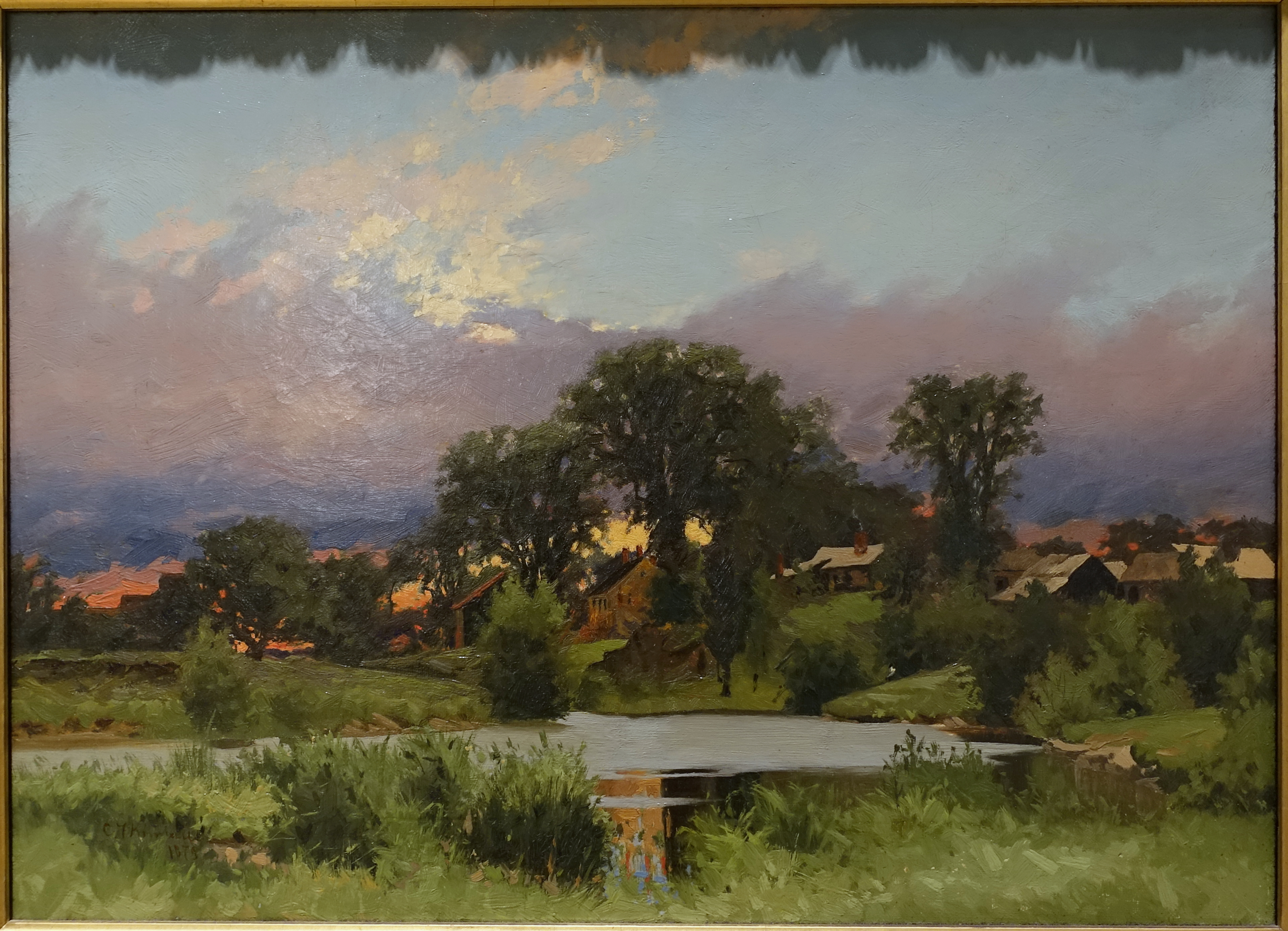 Exhibit in the Portland Museum of Art - Portland, Maine, USA.